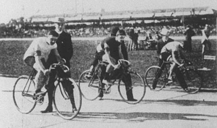 Cycling sprint finish at the 1900 Olympic Games photography, reproduction, no restrictions on use